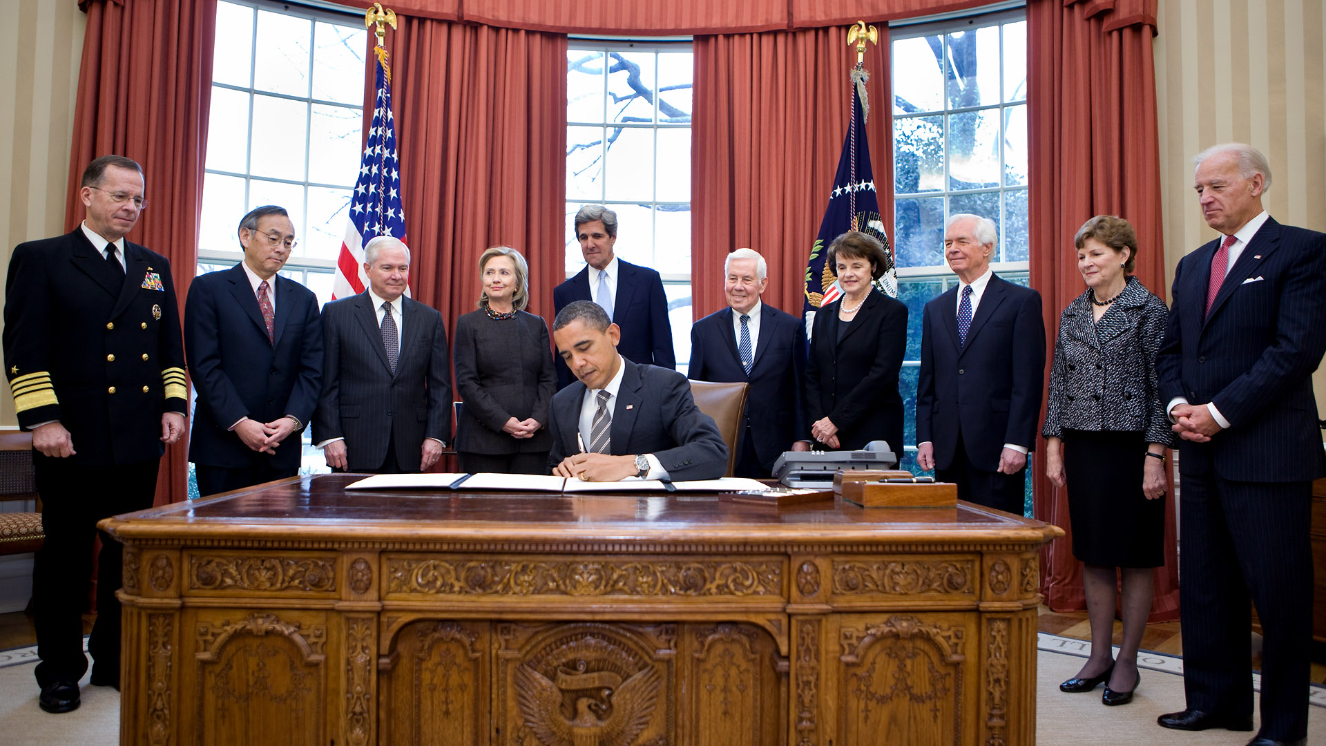 President Barack Obama signs the New START (treaty) in the Oval Office, Feb. 2, 2011. Participants include, from left: Chairman of the Joint Chiefs of Staff Admiral Mike Mullen; Energy Secretary Steven Chu; Defense Secretary Robert Gates; Secretary of State Hillary Rodham Clinton; Sen. John Kerry, D-Mass.; Sen. Richard Lugar, R-Ind.; Sen. Dianne Feinstein, D-Calif.; Sen. Thad Cochran, R-Miss.; Sen. Jeanne Shaheen, D-N.H.; and Vice President Joe Biden.